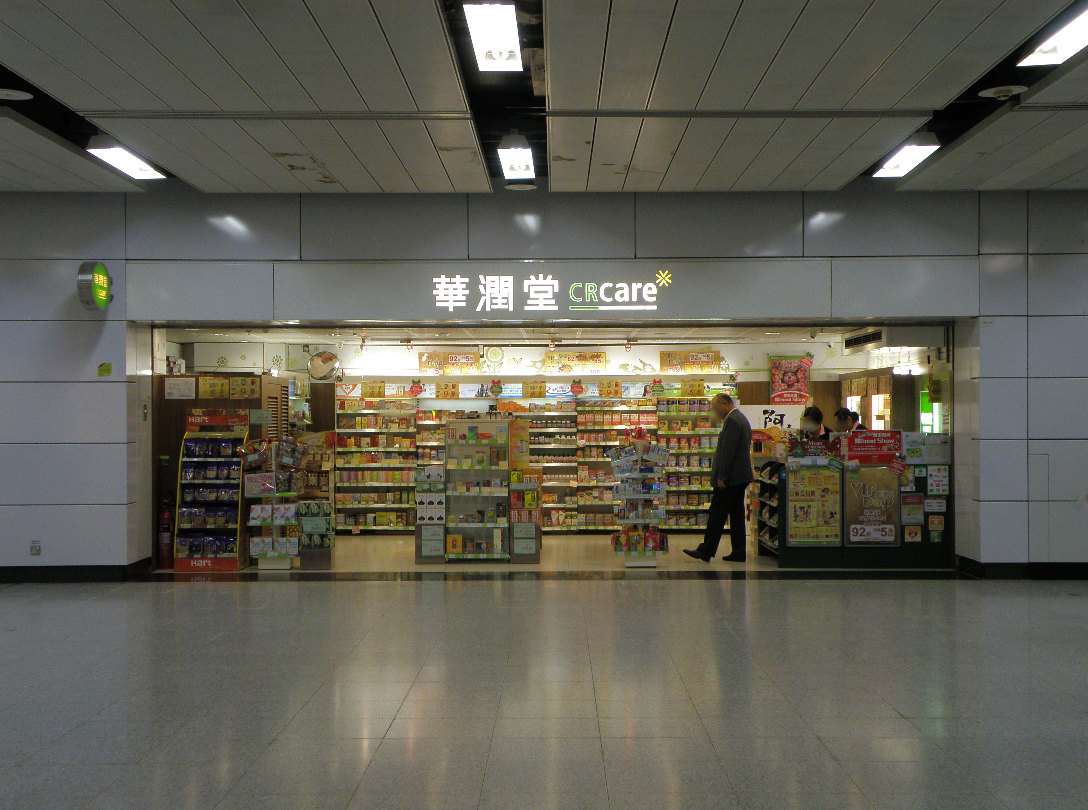 CRcare in Hong Kong.